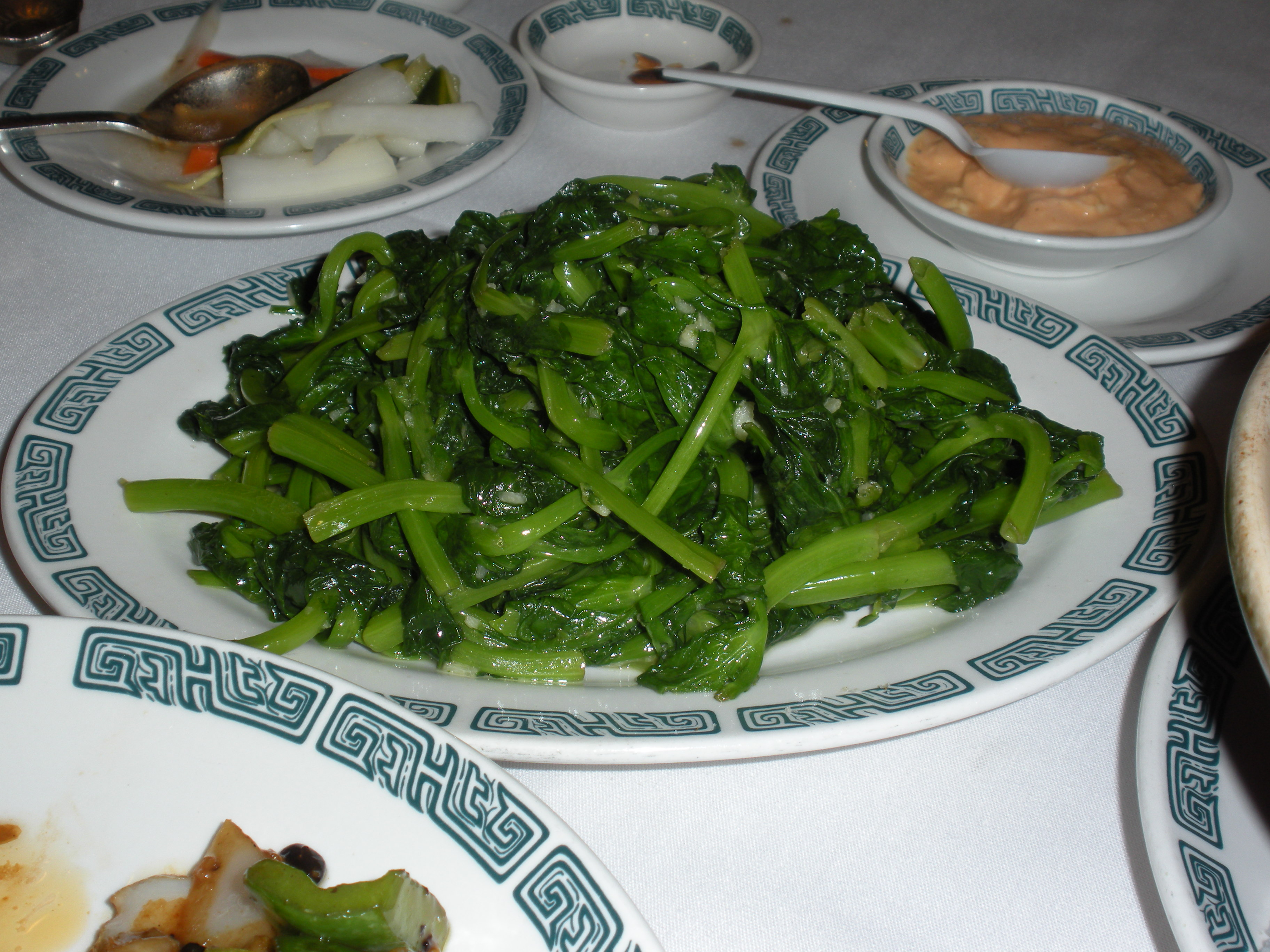 These are sautéed snow pea shoots from the Mayflower Restaurant in Milpitas, CA. This image is also available at